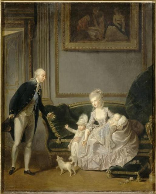 The future Philippe Égalité with his wife and sons at the Palais Royal